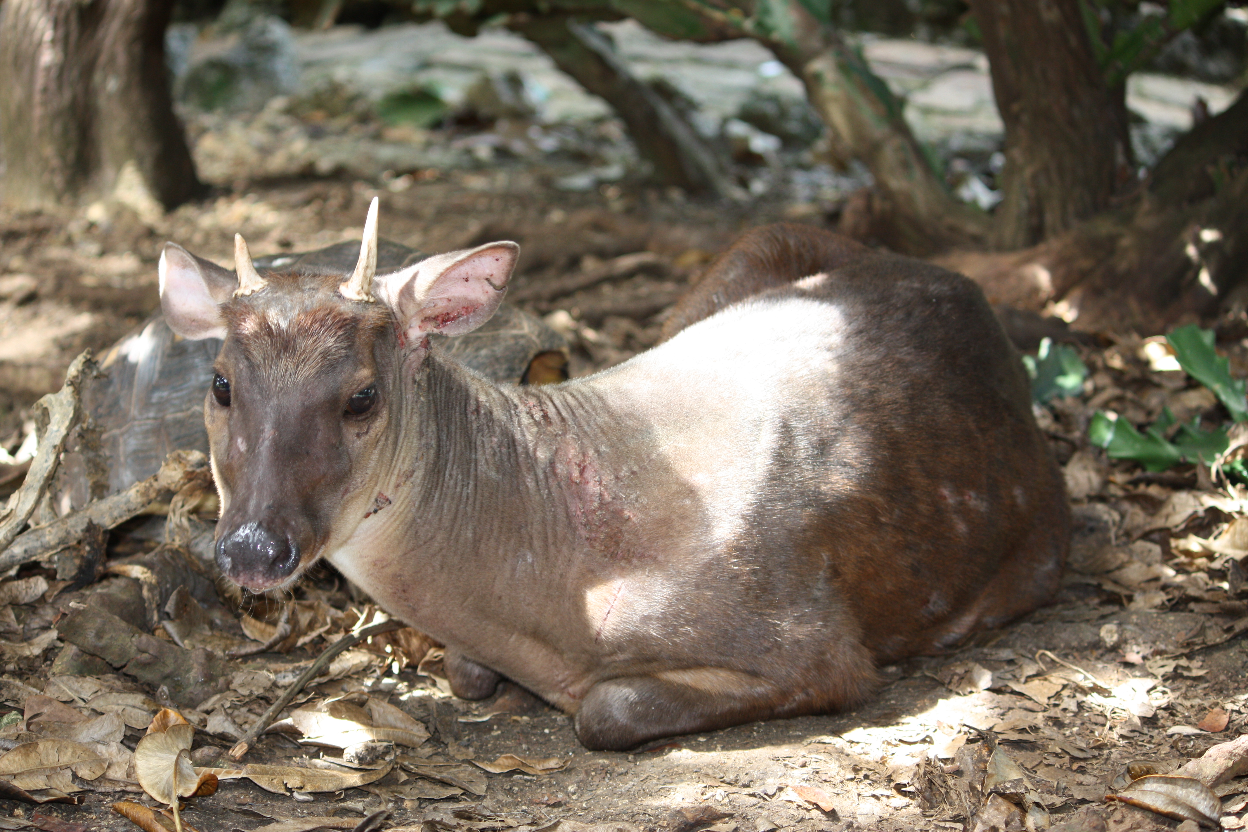 Male Red Brocket Deer (Mazama americana), bearing fresh wounds apparently due to competition with other males. Captive individual in Barbados Wildlife Reserve, Barbados (not present there in the wild).